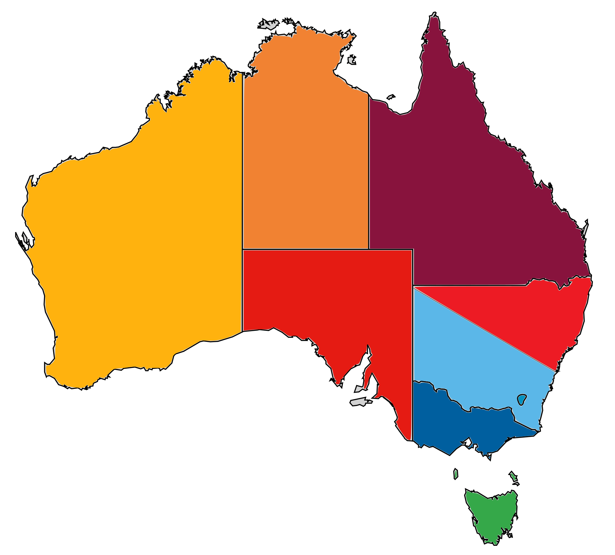 A diagram showing state member federations of Football Federation Australia.